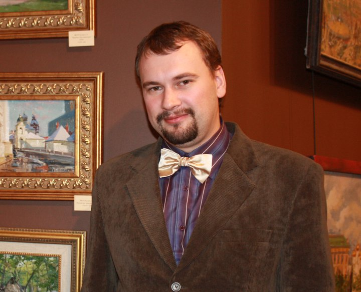 Portrait of the artist Simon Kozhin